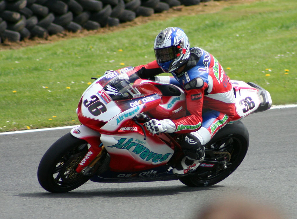 This is Greg doing well on the Airwaves Ducati at Oulton Park British Superbikes in May 2005.